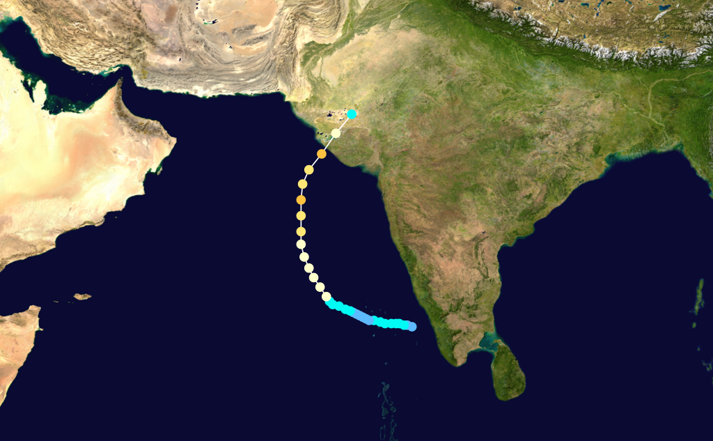 Cyclone 03A 1998 track. Uses the color scheme from the Saffir-Simpson Hurricane Scale.